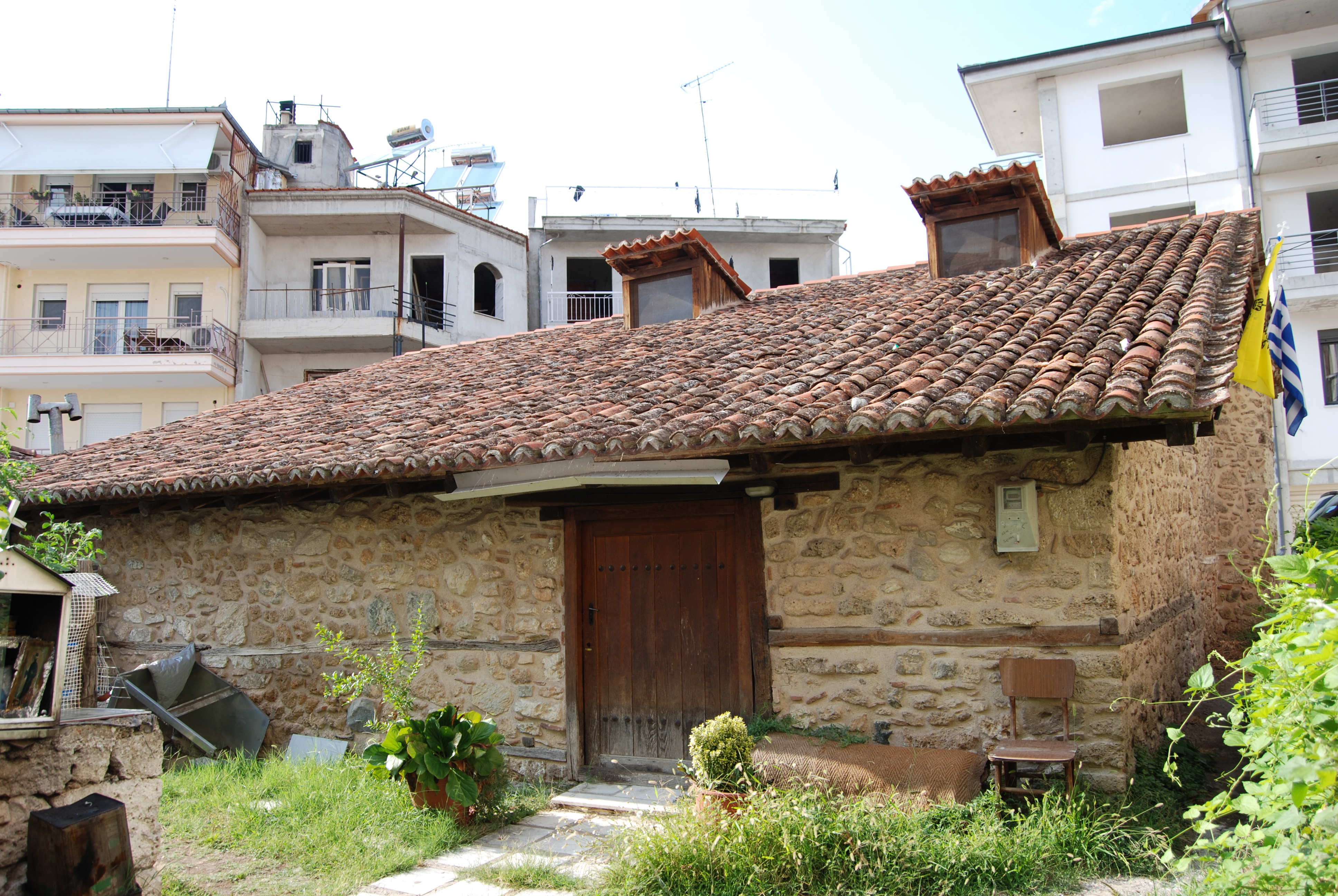 St. Andrey Dexias, Ber